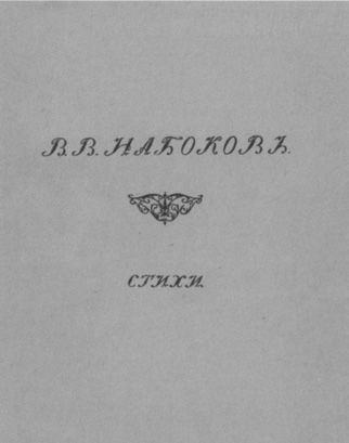 Cover of the first poems collection by Vladimir Nabokov, S-Petersburg, 1916